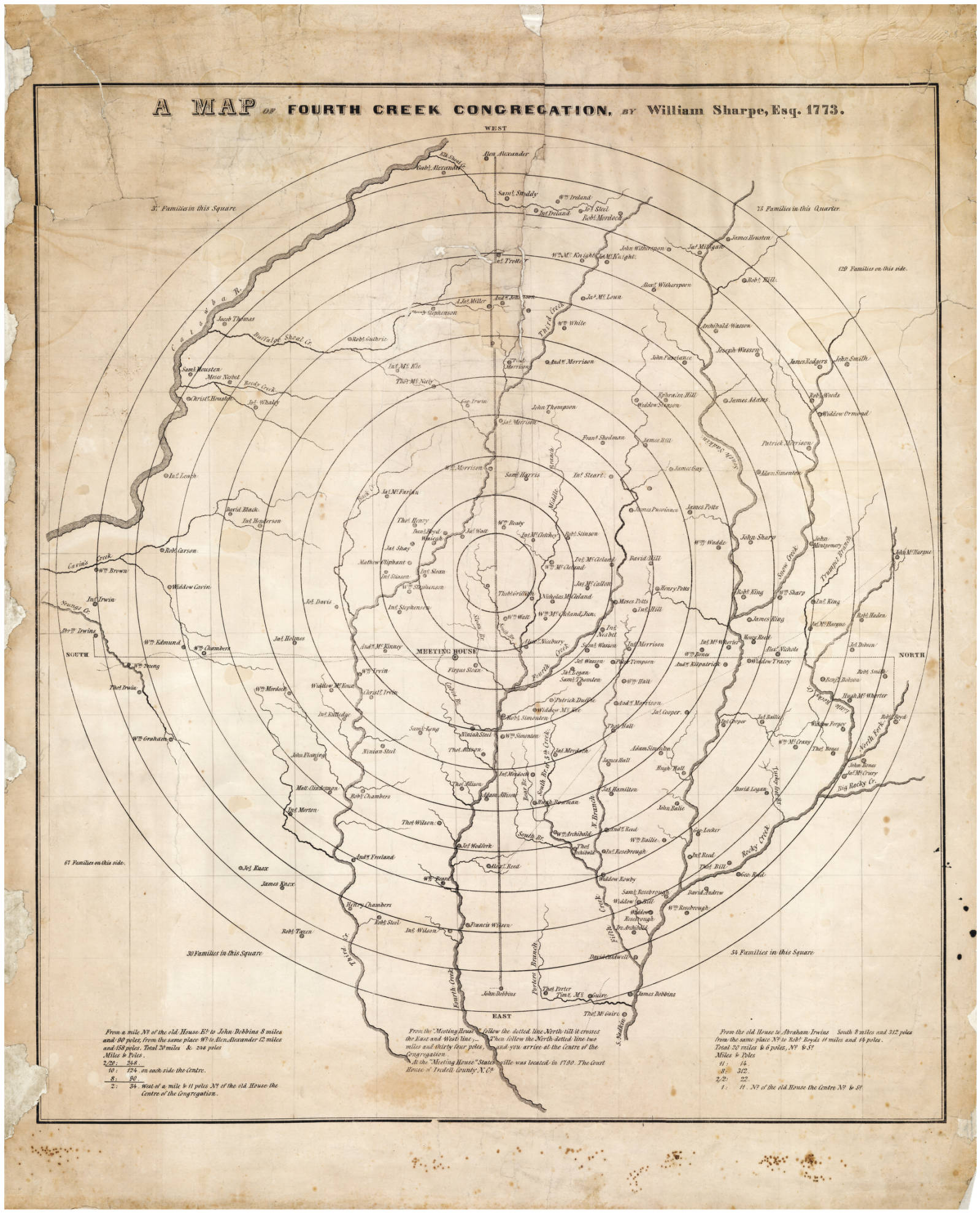 This map shows the location of members of the Fourth Creek Congregation that was located in Rowan County, Province of North Carolina. It was created by a member of the Fourth Creek Congregation, William Sharpe, in 1773 and was published in 1847. The map depicts creeks, streams, landowners, and churches in this area of Rowan County, near the present day town of Statesville, Iredell County, North Carolina